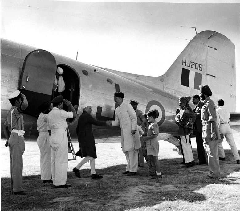 Sheikh Abdullah receives Pandit Jawaharlal Nehru on his arrival at Srinagar Airport on September 24, 1949 to take part in the All Jammu & Kashmir National Conference.